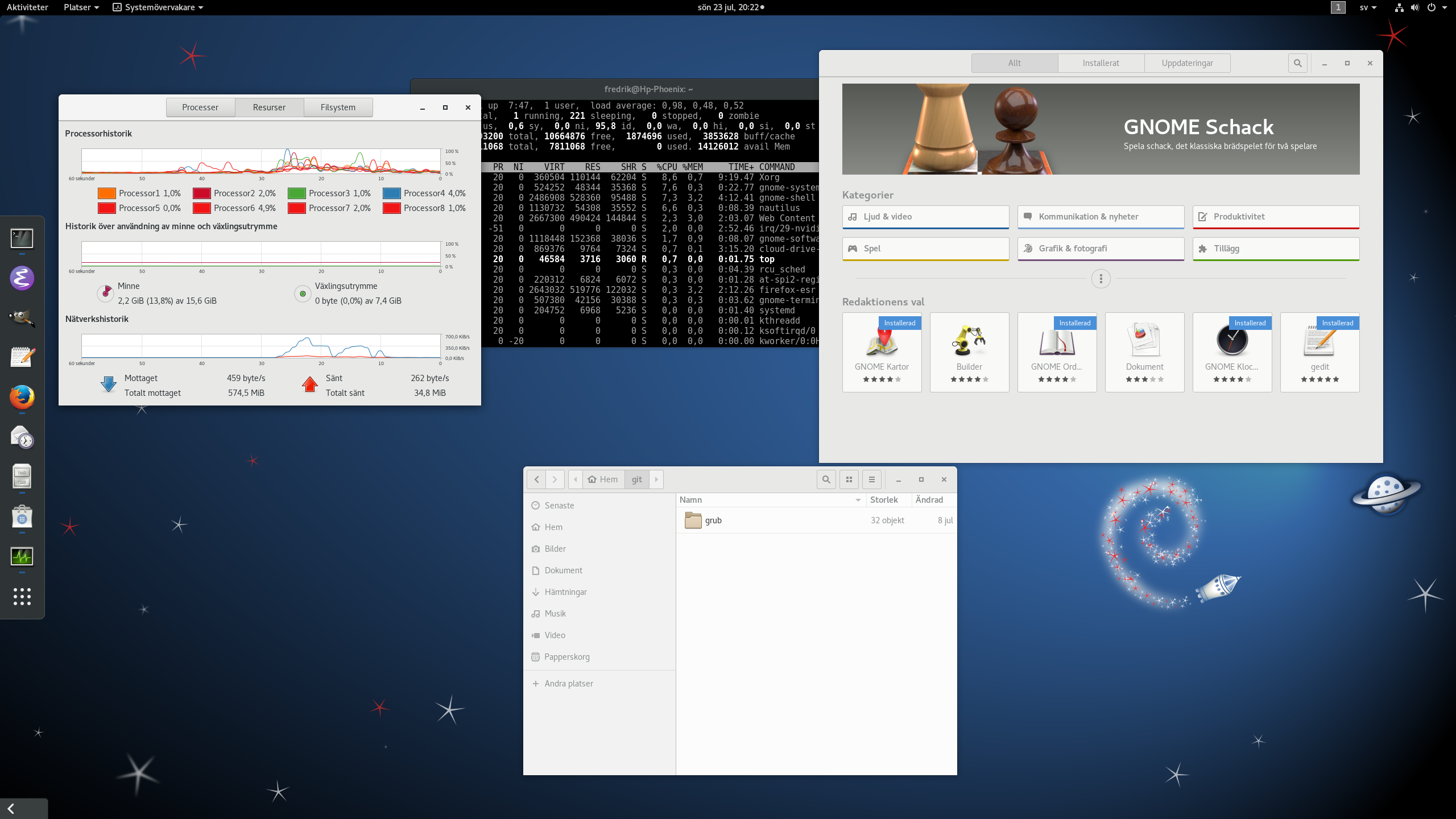 GNOME desktop environment version 3.22.2